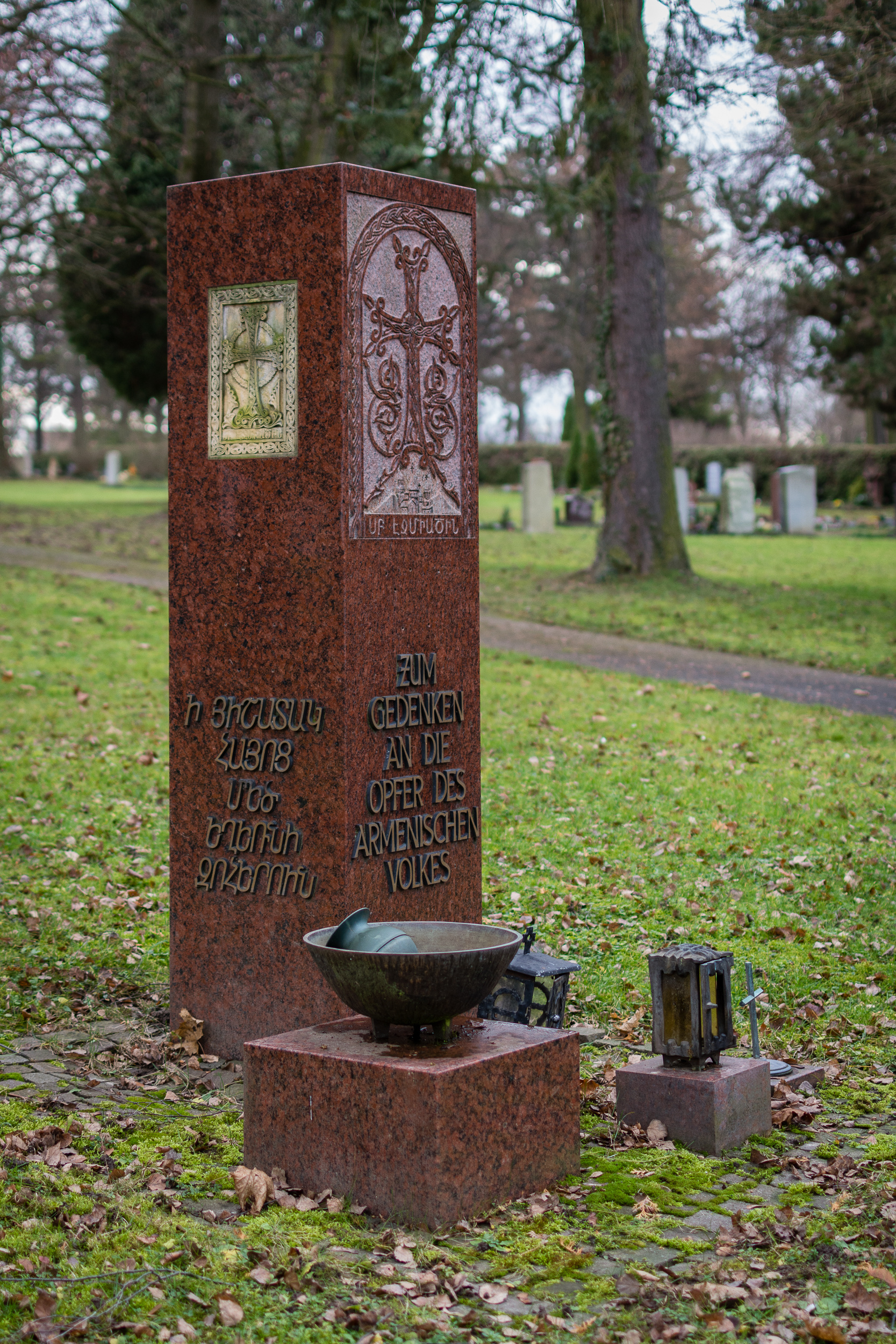 Memorial to the Armenian Genocide in Stuttgart.